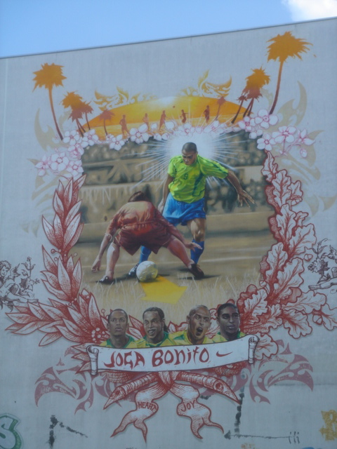 Graffiti of Ronaldo in Berlin